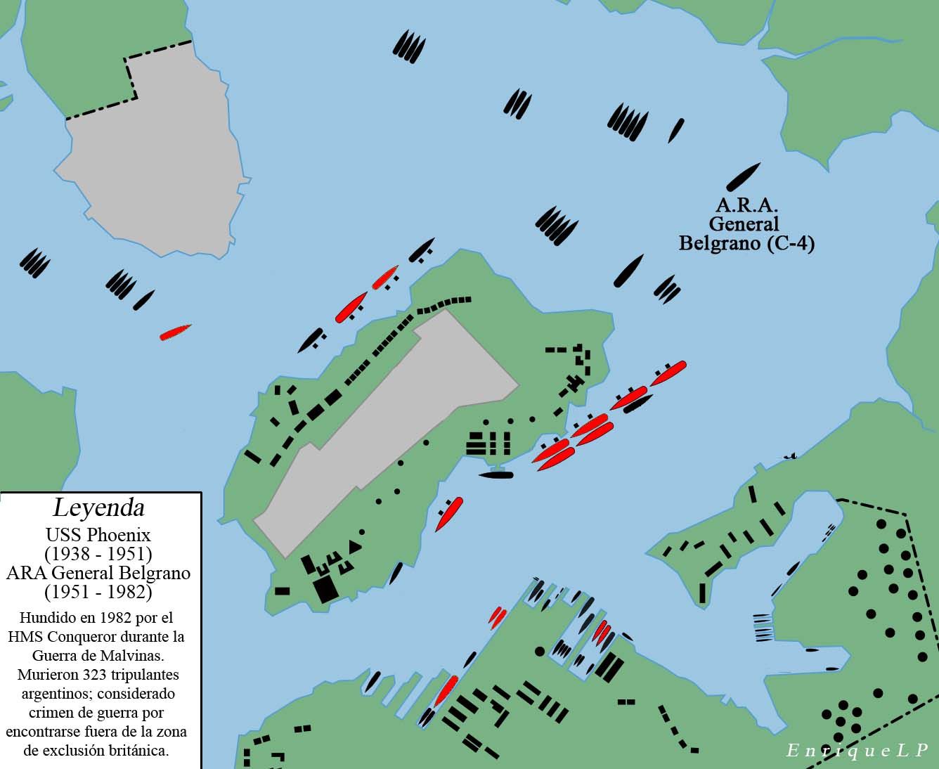 It shows the potition of the USS Phoenix (ARA Genral Belgrano 1951-1982) during the attack on Pearl Habor. The ship survives to it, but then was sunk in the Falklands War (1982) by the HMS Conqueror.